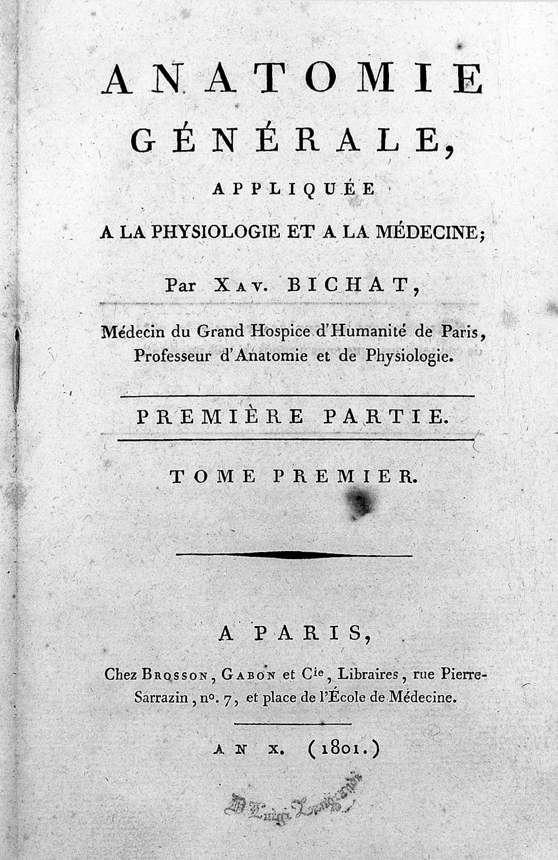 Rare Books Keywords: Anatomy; Physiology; Medicine; Marie Francois Xavier Bichat